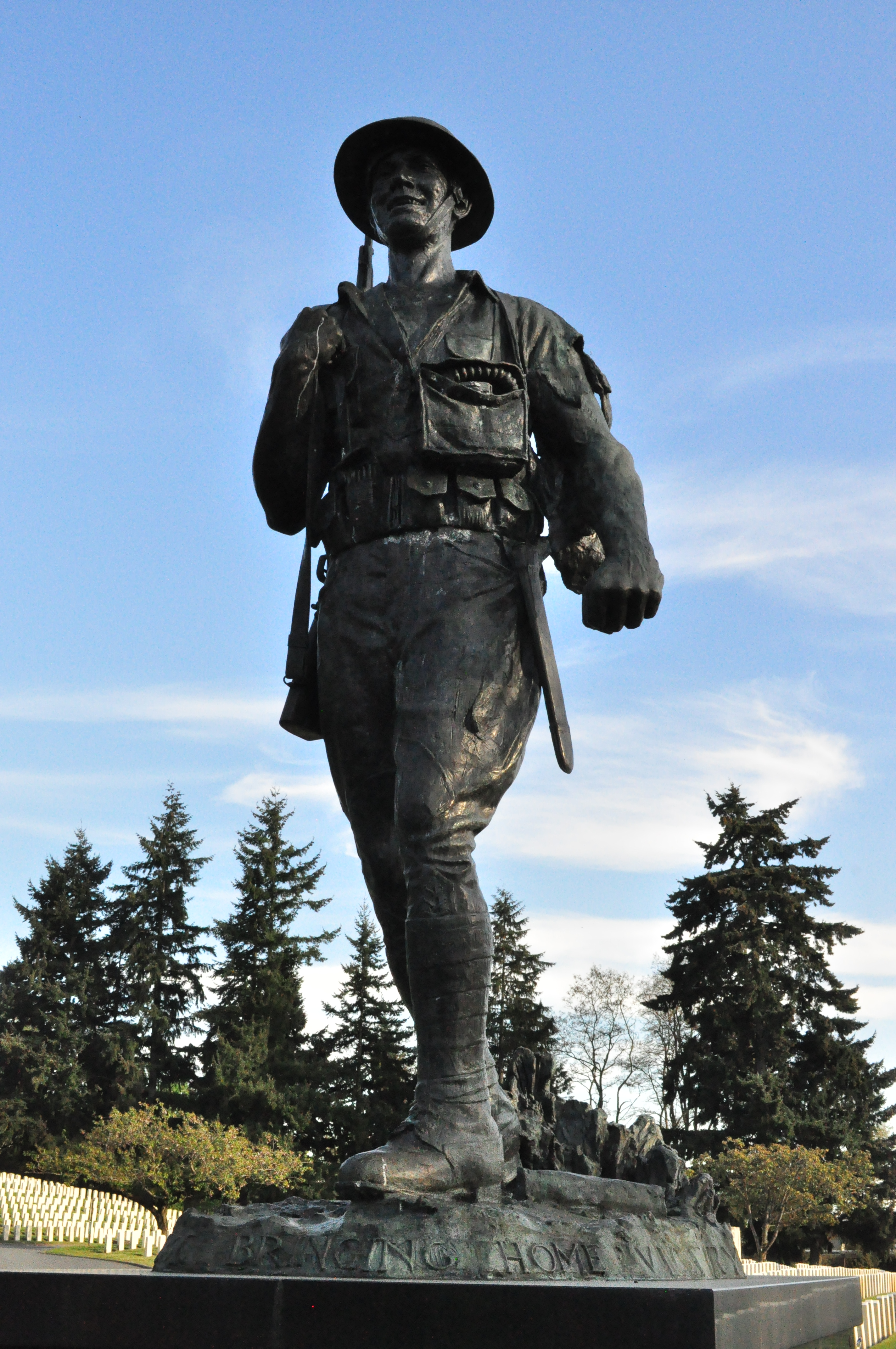 Doughboy statue Bringing Home Victory by Alonzo Victor Lewis, Veterans Memorial Cemetery, Evergreen Washelli Memorial Park, Seattle, Washington, U.S.